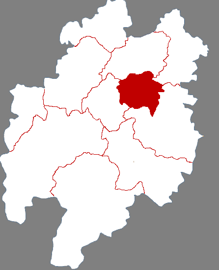 Location of Wutongqiao District in Leshan City, China